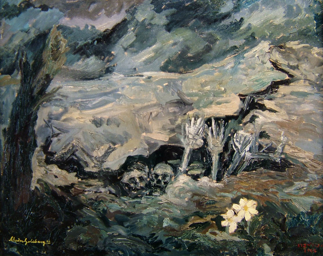 Babi-Yar a well known WWII killing field. Oil on canvas, collection of the Spertus Museum, Chicago, IL Photo by Shalom Goldberg